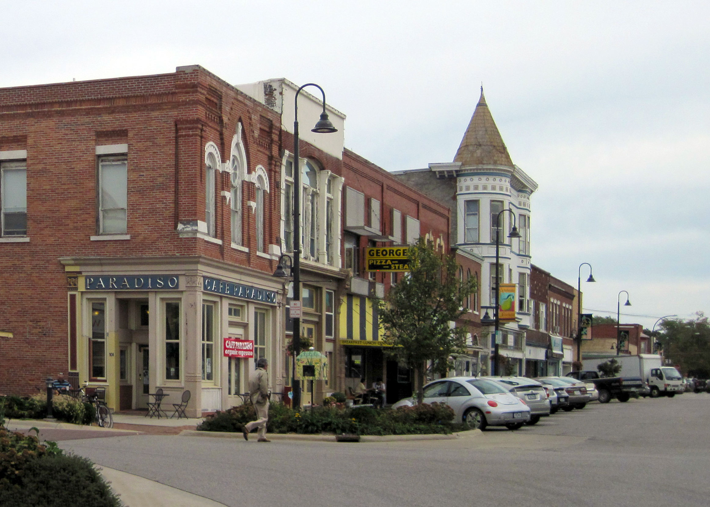 Fairfield, Iowa